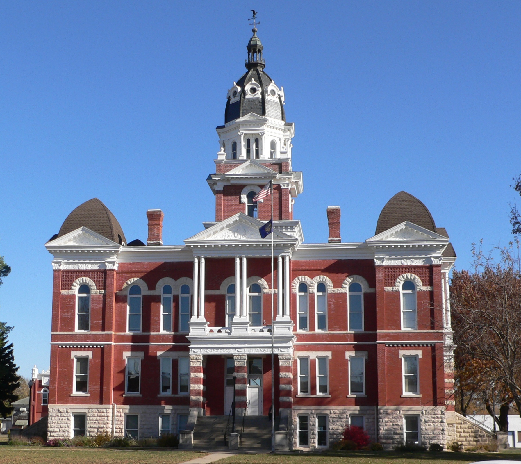 Johnson County Courthouse in Tecumseh, Nebraska; seen from the west.